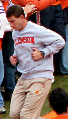 Clemson football head coach Dabo Swinney